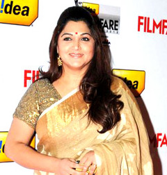 Kushboo at the 60th Filmfare Awards South ceremony